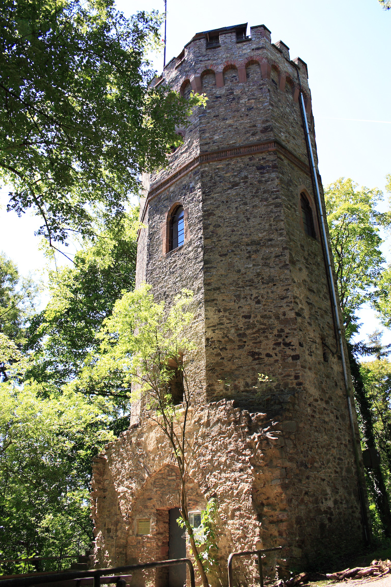 Public observatory on the Johannisberg hill, Bad Nauheim (Hessen, Germany)